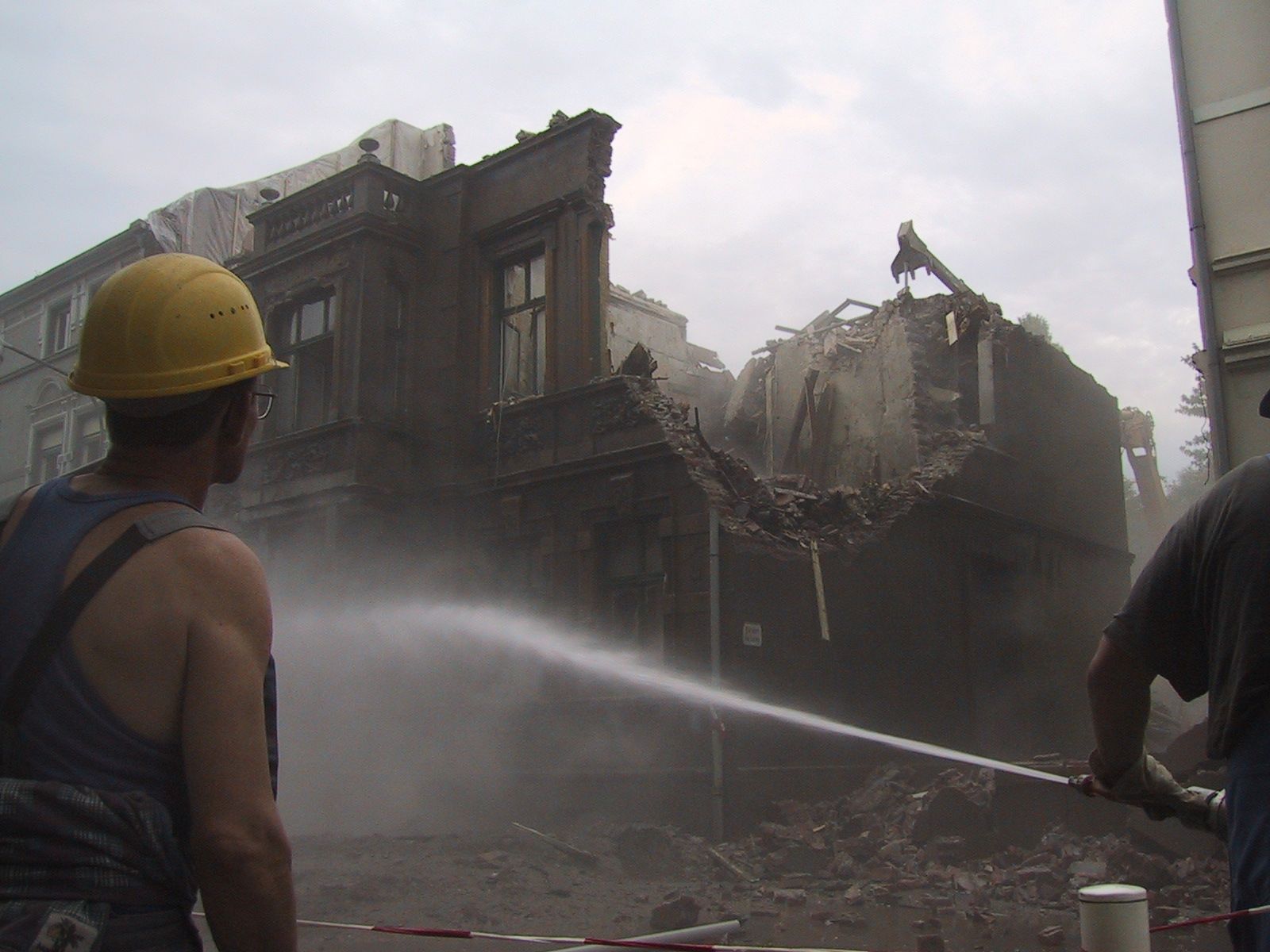 Abbruch eines alten Wohnhause Demolition of an old living house Date: 2002, Germany Author: Maschinenjunge Licence: cc-by-sa-2.5